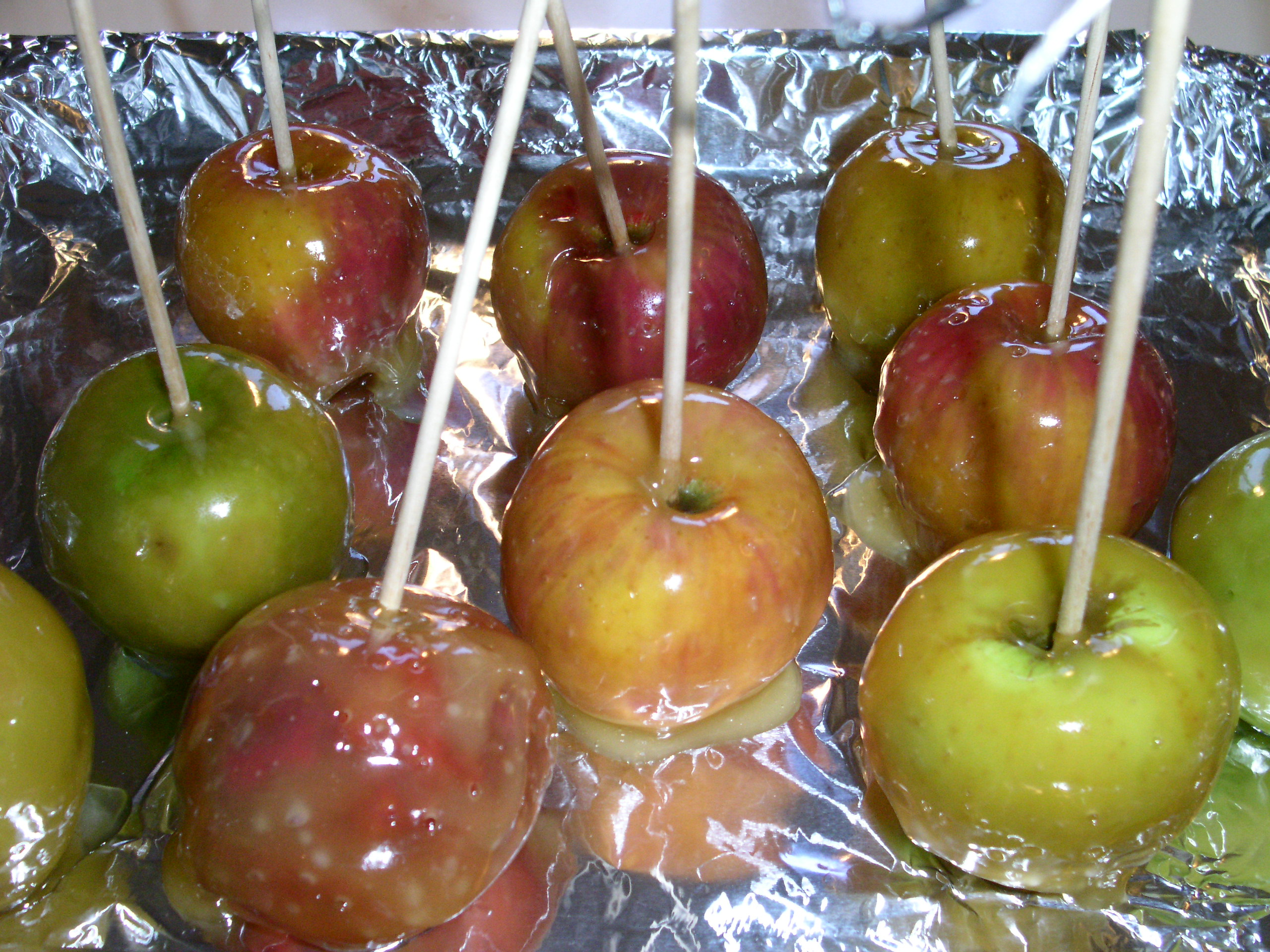 Candy appels